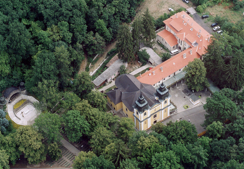 Franciscan Convent - Mátraverebély - Hungary - Europe